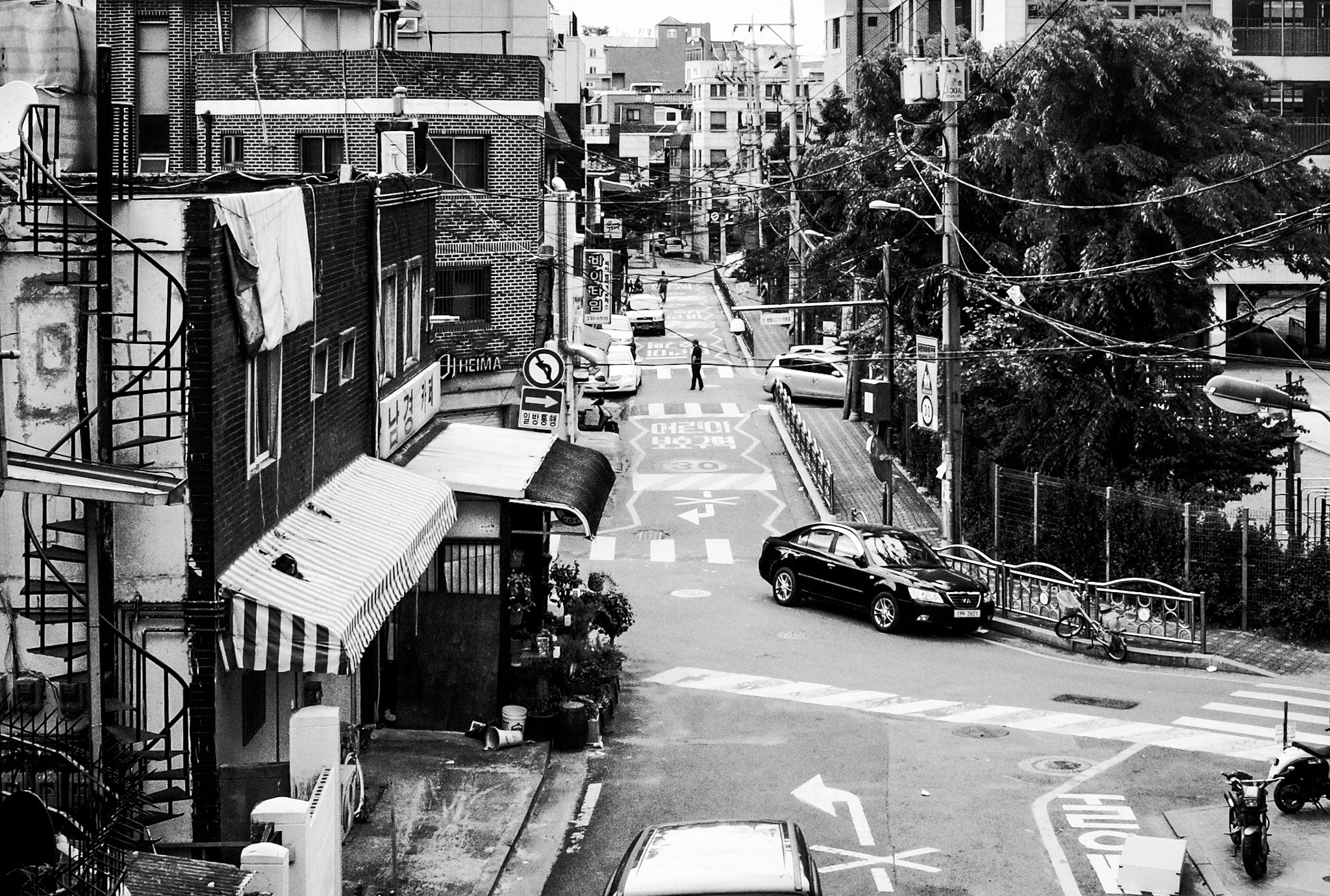 An alley in residential area of Hapjeong